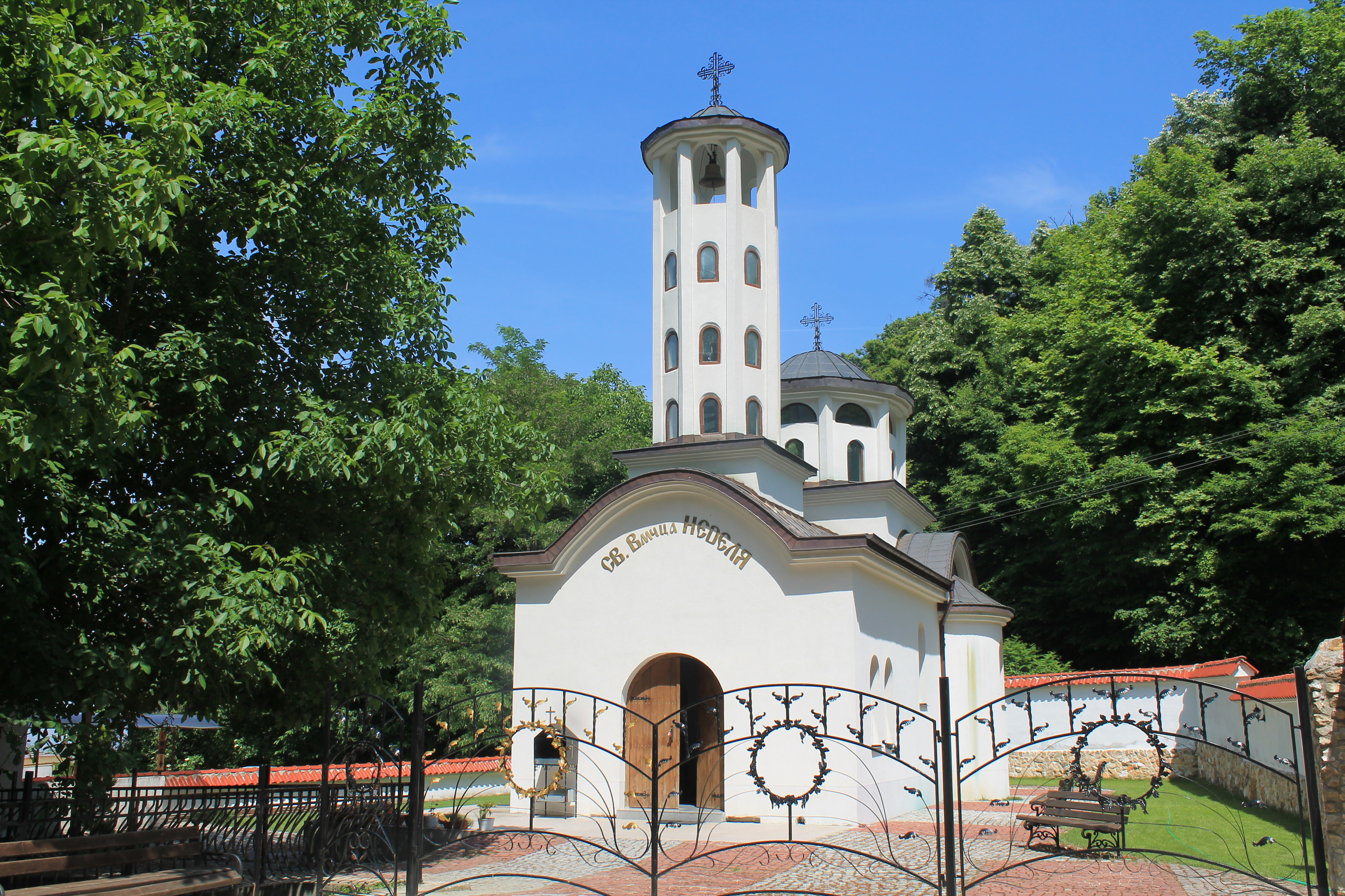 The church "St. Nedelya" Kolarovo village, Southwestern Bulgaria